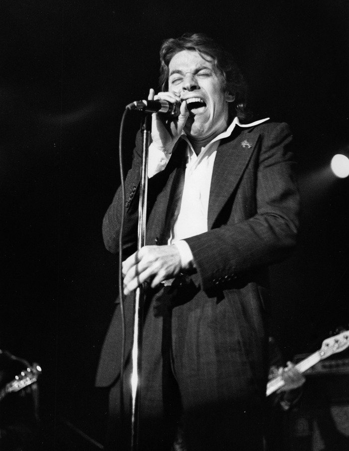 The photographer's description says: "During a bicentennial performance at the Sunset Strip Roxy, Robert Palmer strongly reacts to a premonition of his eminent addiction to love."